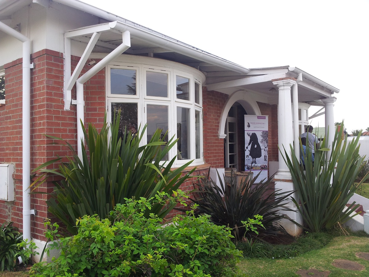 This media shows a South African Protected Site with SAHRA file reference 9/2/228/0137.